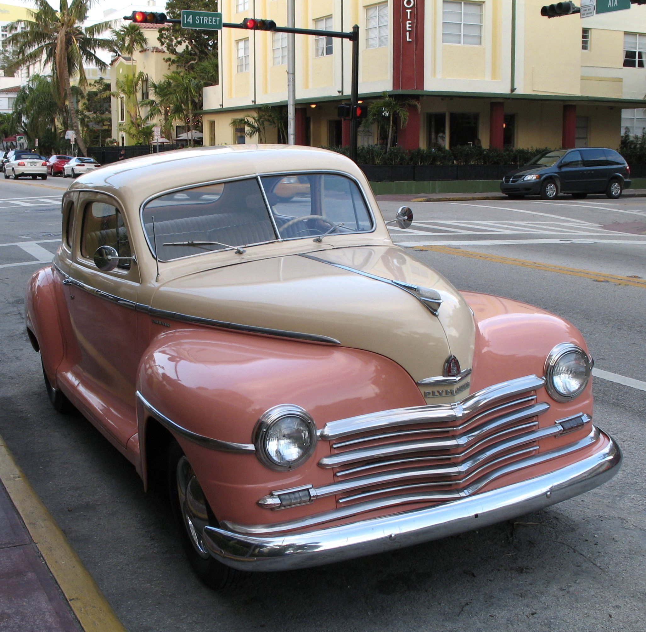 Plymouth coupe 1948 on street in Miami Beach, Florida